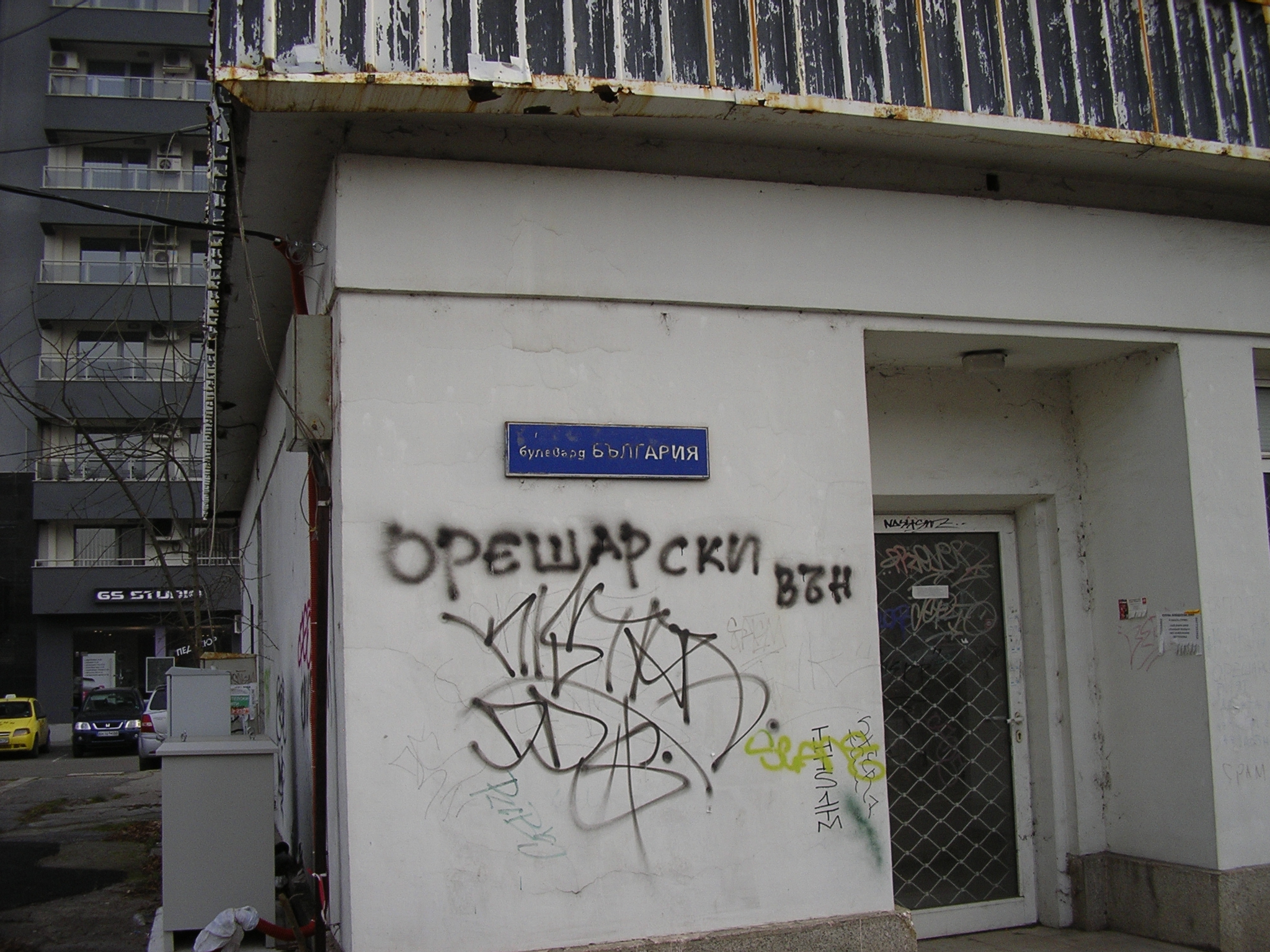 An anti-Oresharski message scribbled on a wall in Sofia.